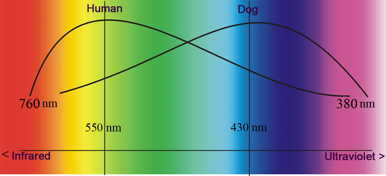 Dog-eye color perception